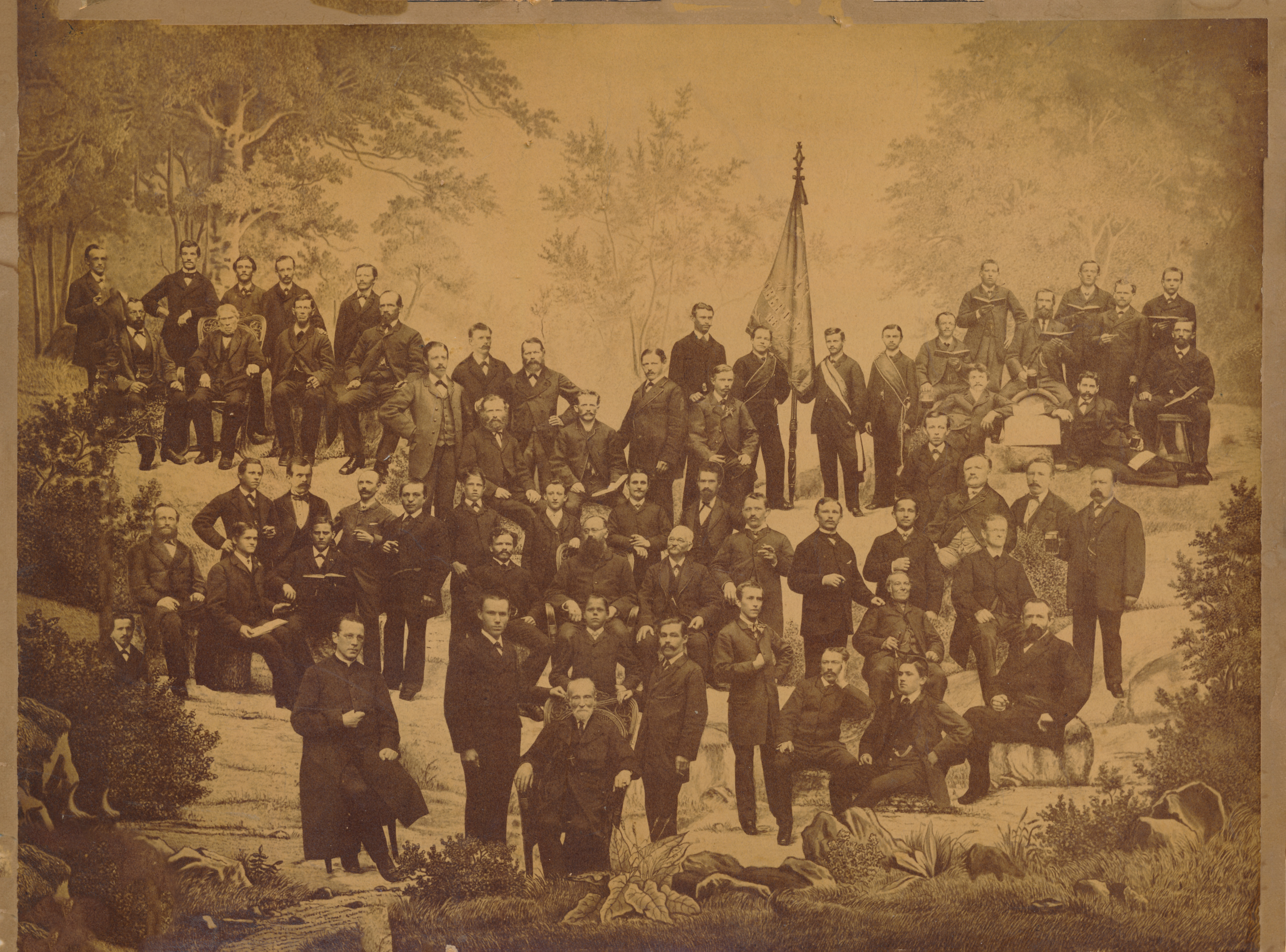 Oberursel Gesellenverein 1881 Panoramic photo with Head Pastor Wilhelm Tripp (front row left), 1887 parish priest of Limburg an der Lahn and cathedral capitular. Wilhelm Tripp (born October 9, 1835 in Hadamar, † September 28, 1916 in Limburg an der Lahn) was a German clergyman, parish priest and Domkapitular in Limburg. 1871 parish administrator and 1873-1887 pastor of Oberursel. Photographer unknown.